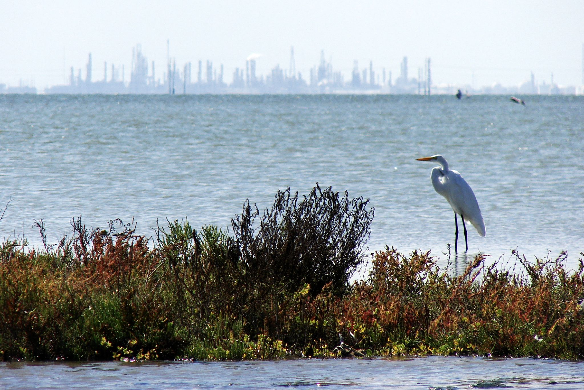 The refineries in the background are Citgo, Flint Hills, and Valero in Corpus Christi, Texas.